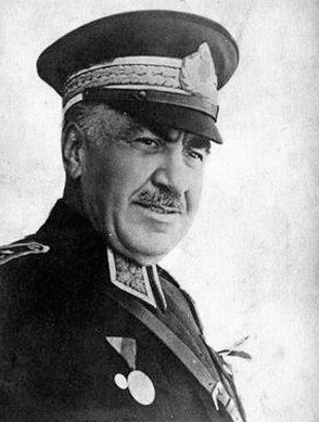 An old photograph of Marshal Fevzi Çakmak from the late 20s or early 30s.